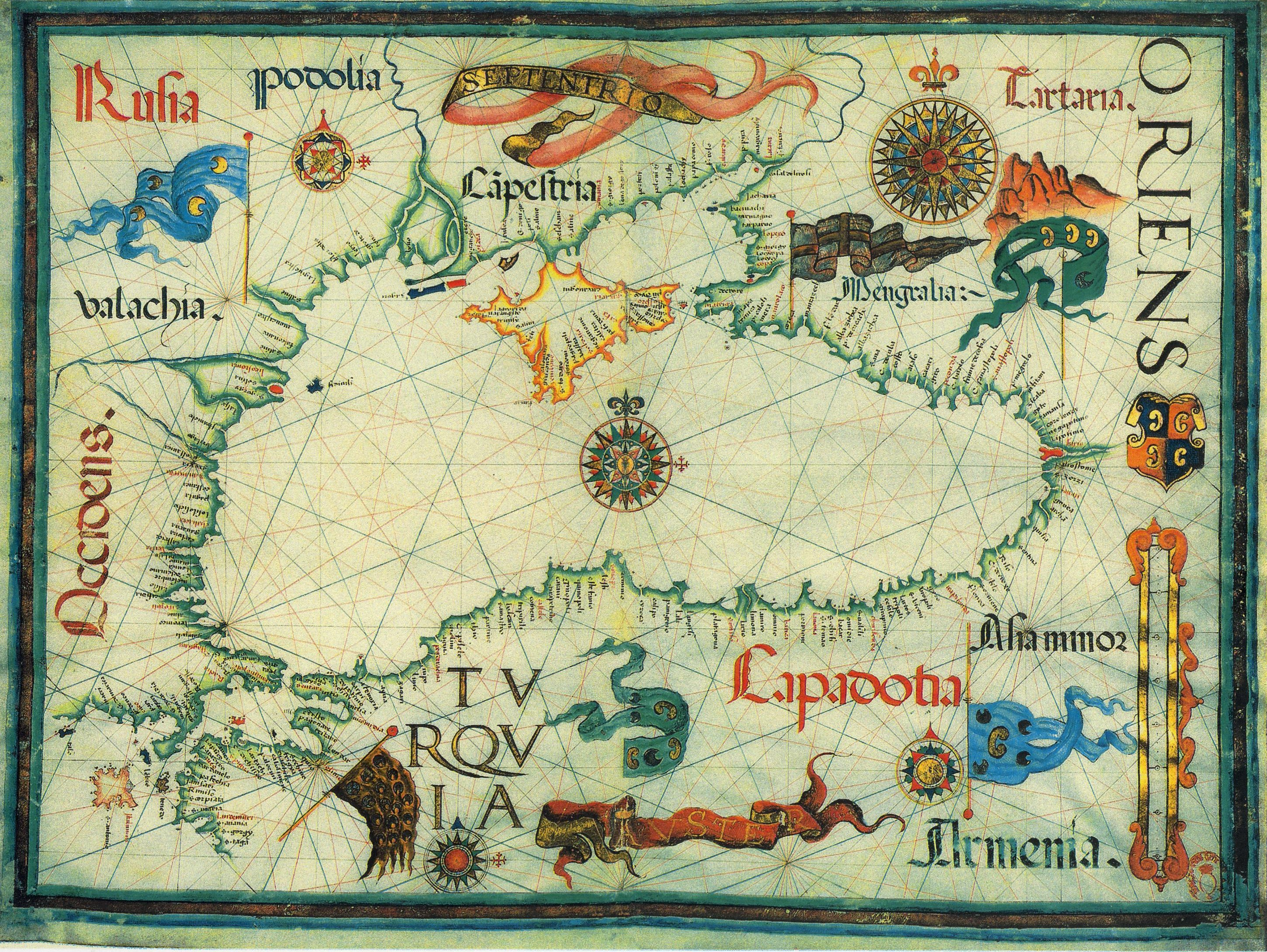 Diogo Homem - Ancient map of Black Sea (circa 1559)